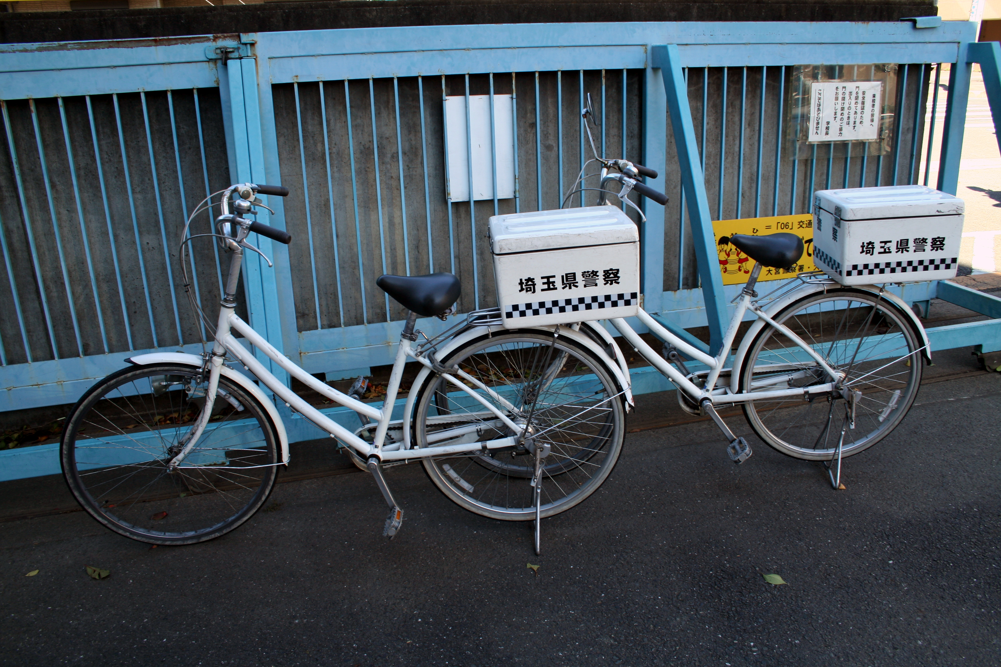 Japanese police bicycle in Saitama prefecture.